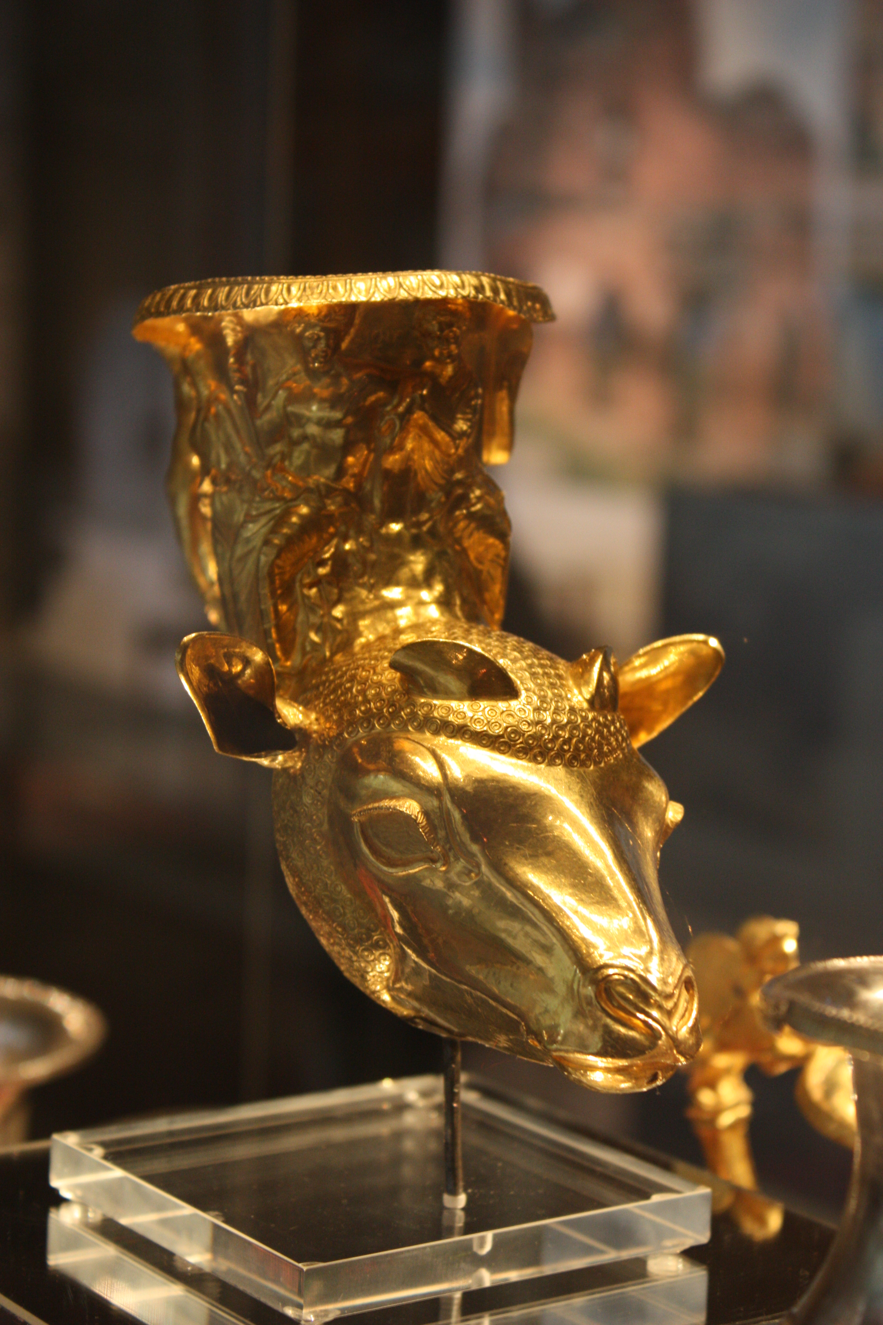 National History Museum, Bulgaria, Sofia, kvartal Bojana